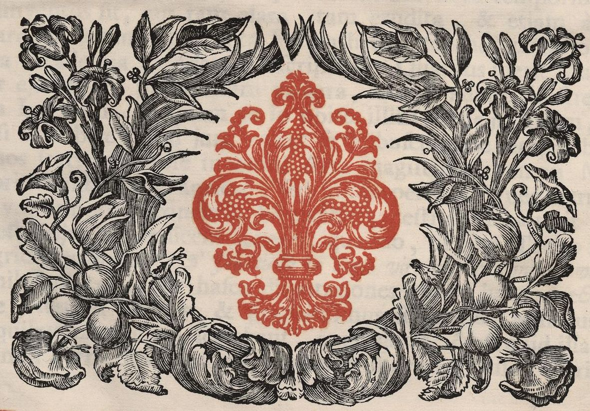 Pezzana's mark